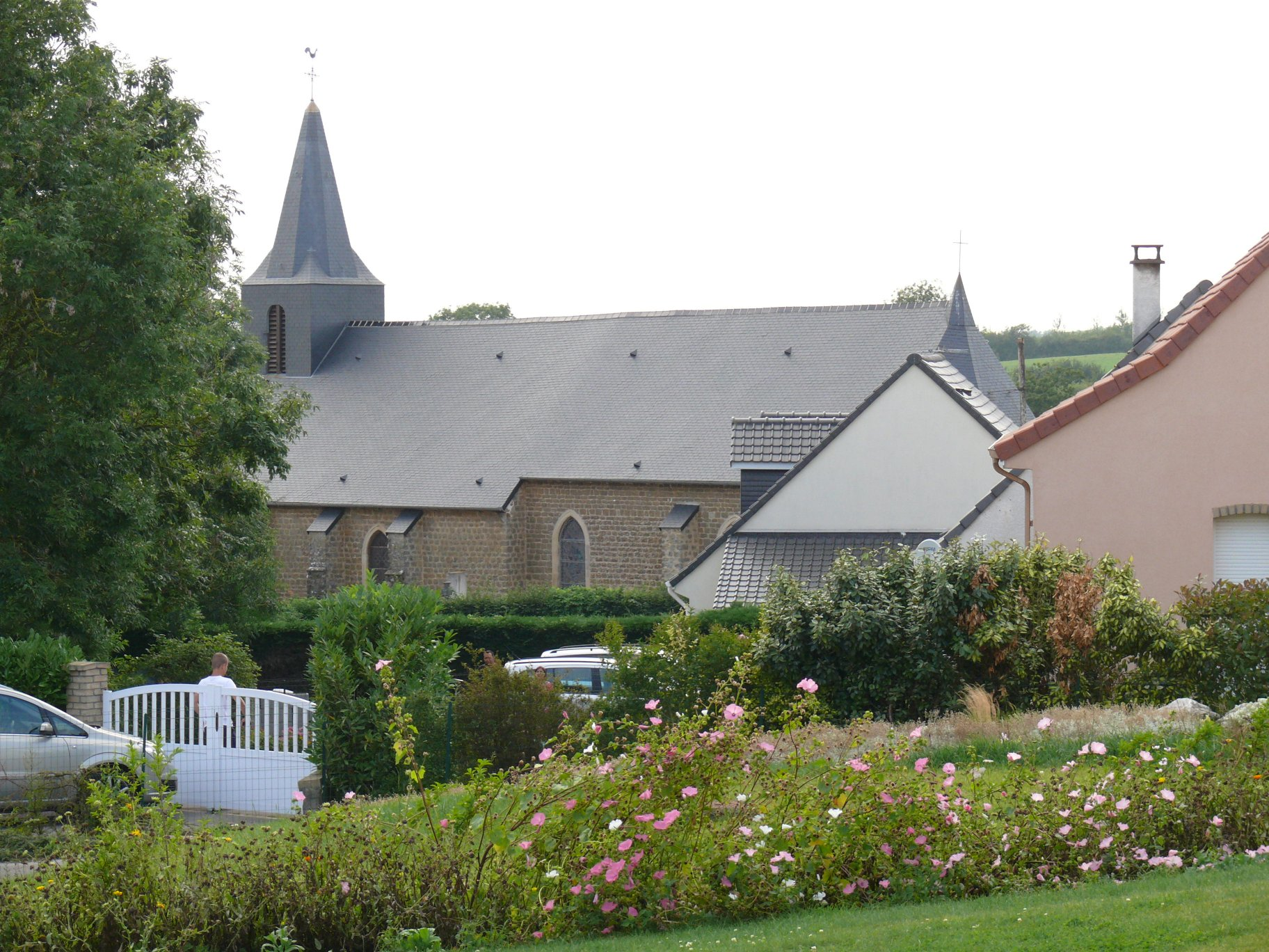 Saint-Léger's church of Hesdin-l'Abbé (Pas-de-Calais, France).